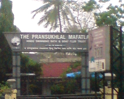 Gate of Pransuklal Mafatlal Bath Swimming and Boating Club in Mumbai